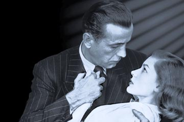 Description: Low-resolution reproduction of promotional photo for the film The Big Sleep (1946), featuring stars Humphrey Bogart and Lauren Bacall